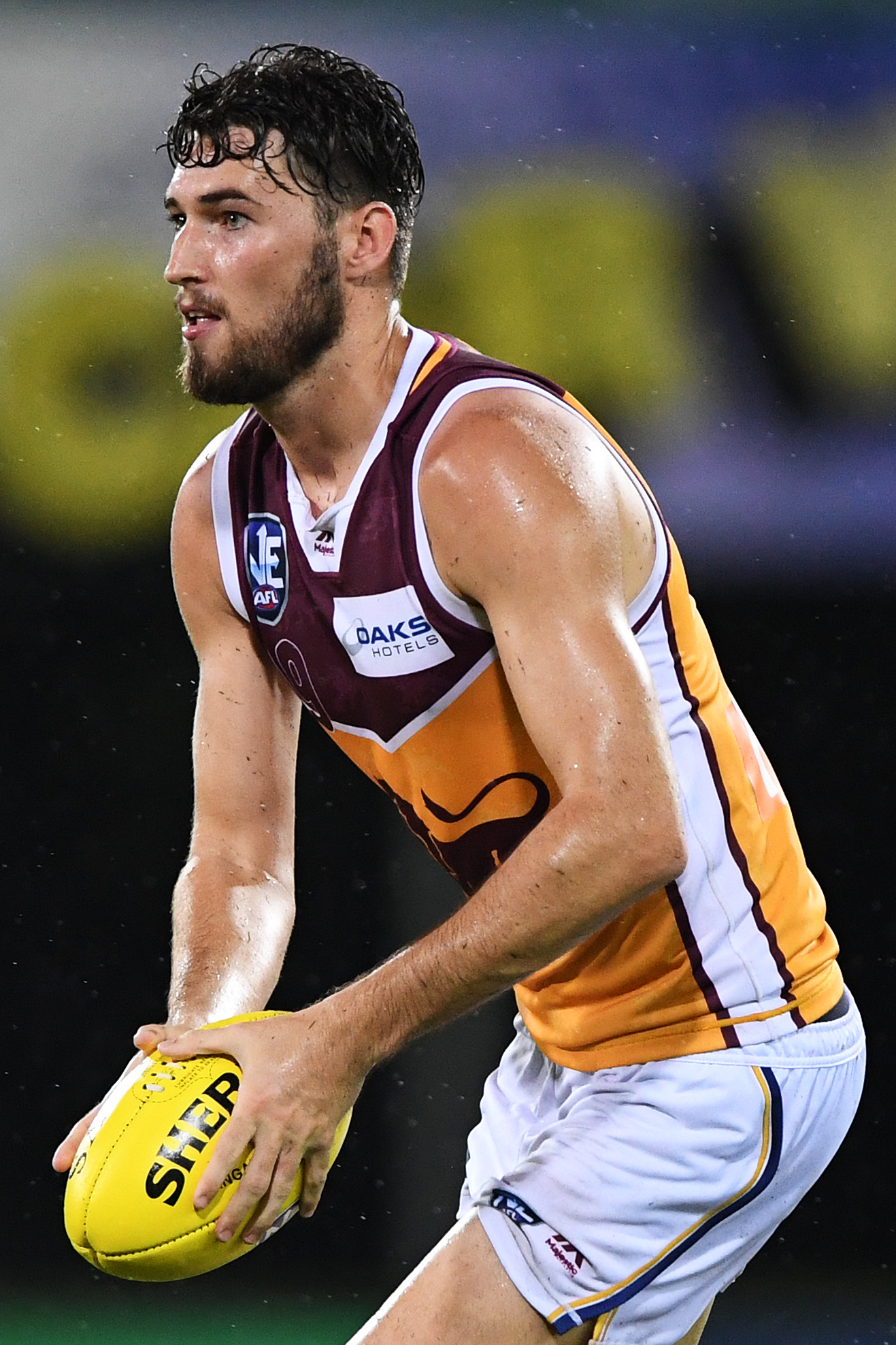 Jacob Allison of the Brisbane Lions during the NEAFL round one match between NT Thunder and Brisbane Lions at TIO Stadium on 6 April 2019 in Darwin, Australia.